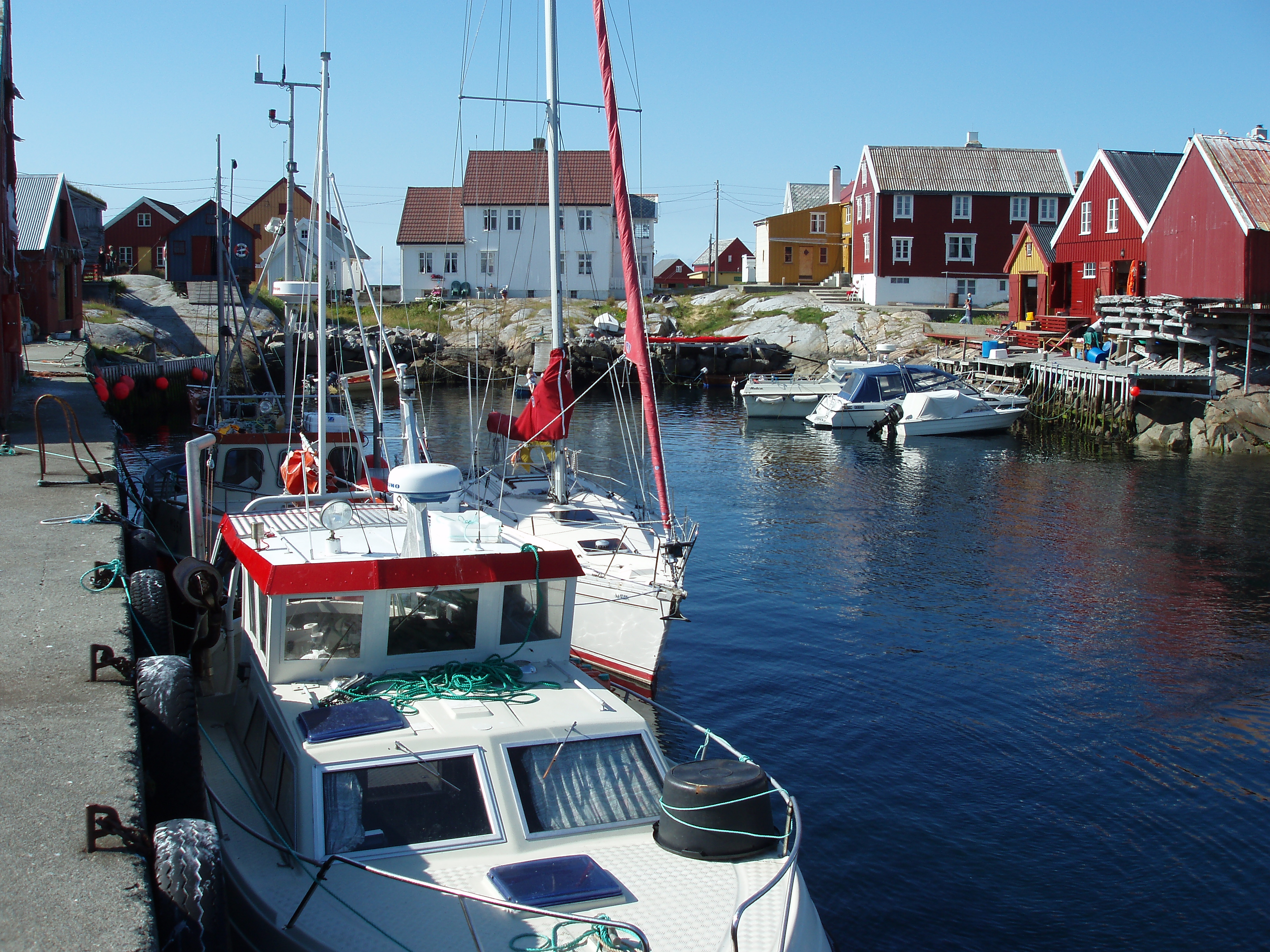 Grip harbour on the island Grip in Kristiansund municipality in Møre og Romsdal county in Norway.